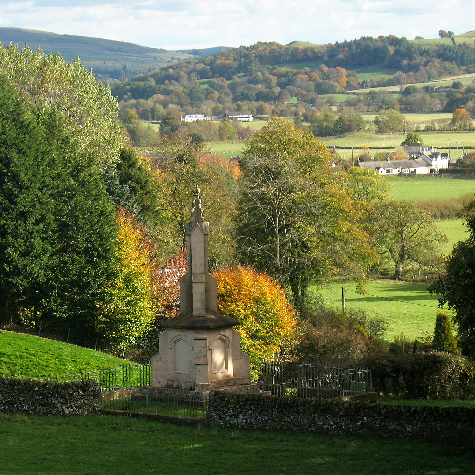 View of the Covenanter Monument in Moniaive Dumfriesshire to the Reverend James Renwick "born near this spot 15th February 1662 and executed at the Grassmarket Edinburgh 17th February 1688" with the Cairn Valley beyond. Carsphairn and Scaur Hills, in the Southern Uplands of Scotland. Scothill 24-10-2010